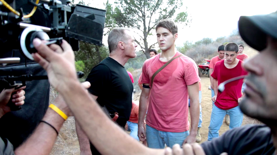 CW actors on set